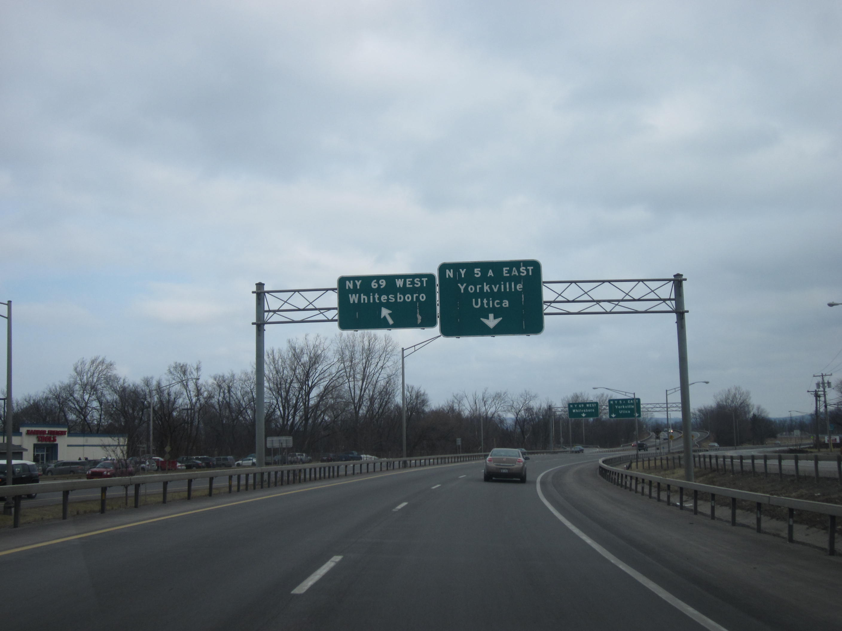 New York State Route 5A eastbound at New York State Route 69 in Whitestown.